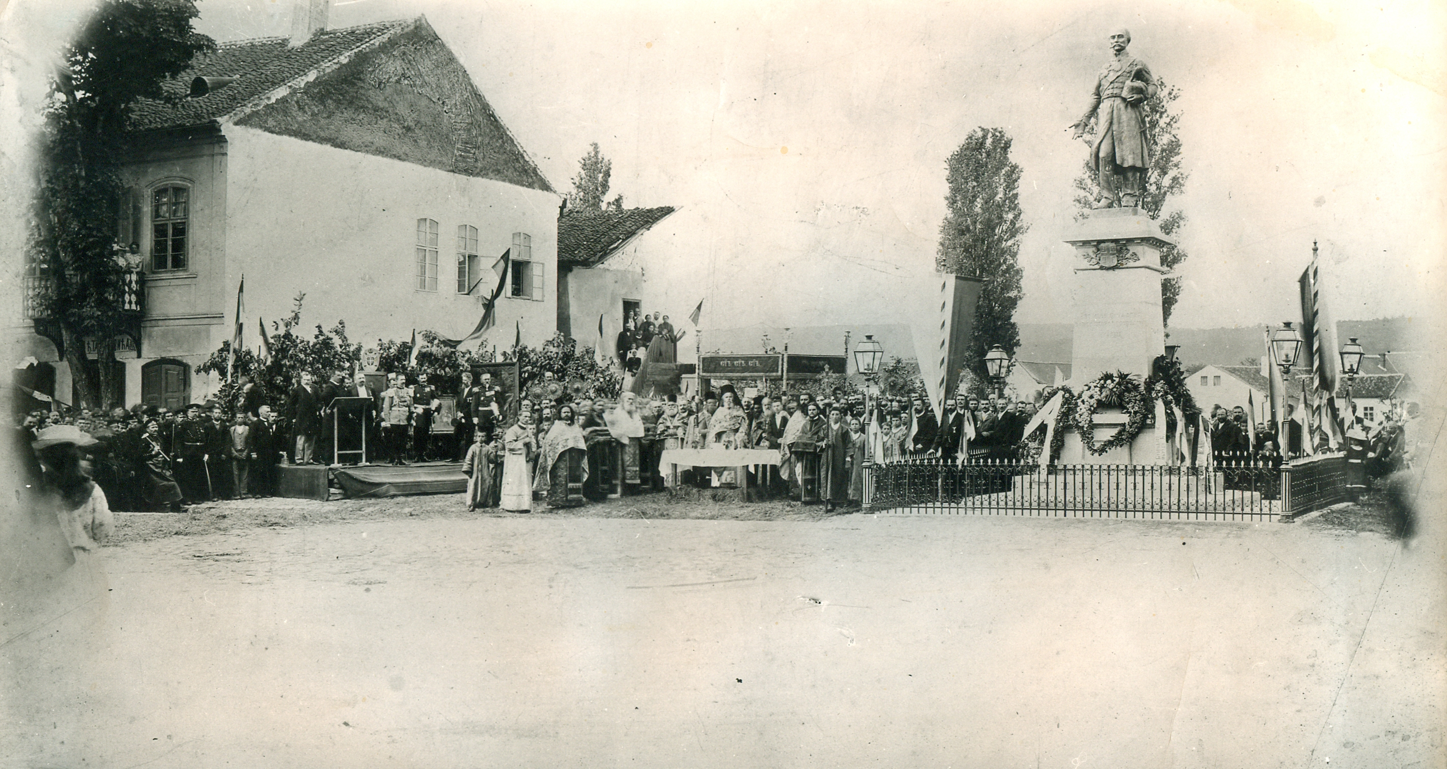 The monument to Milos Obrenovic in Negotin Srpski (latinica): Spomenik knezu Milošu Obrenoviću u Negotinu